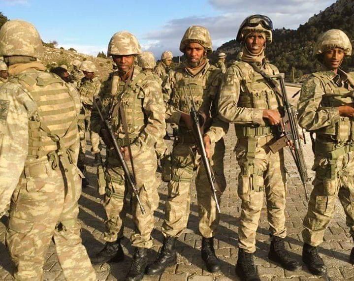 Somali soldiers in Turkey for advanced military training.